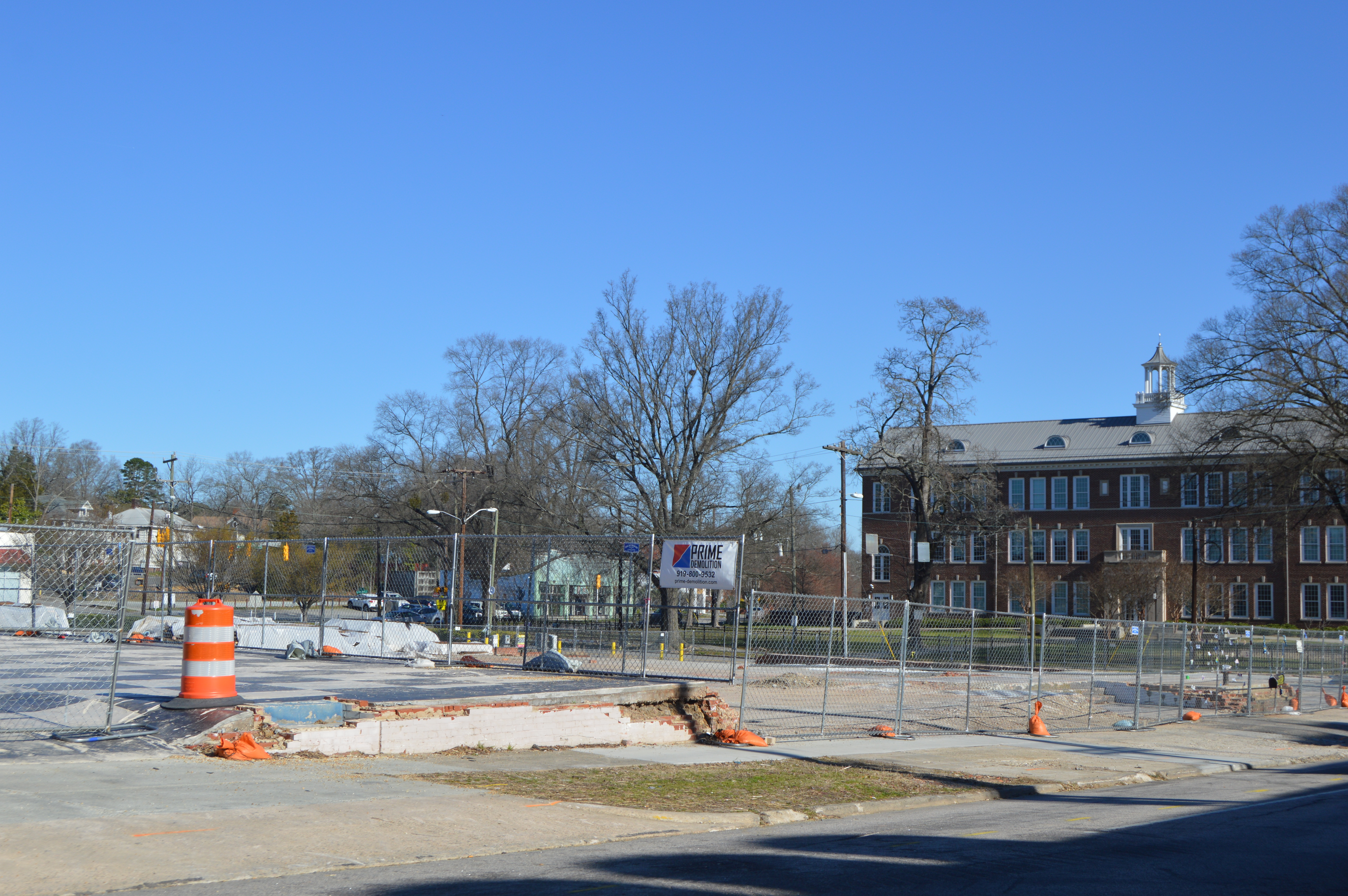 Western side of Duke Street, just south of Morgan Street, in Durham, North Carolina, United States. Until a large gas-line explosion eleven months before this picture was taken, the fenced areas were occupied by a collection of commercial buildings.